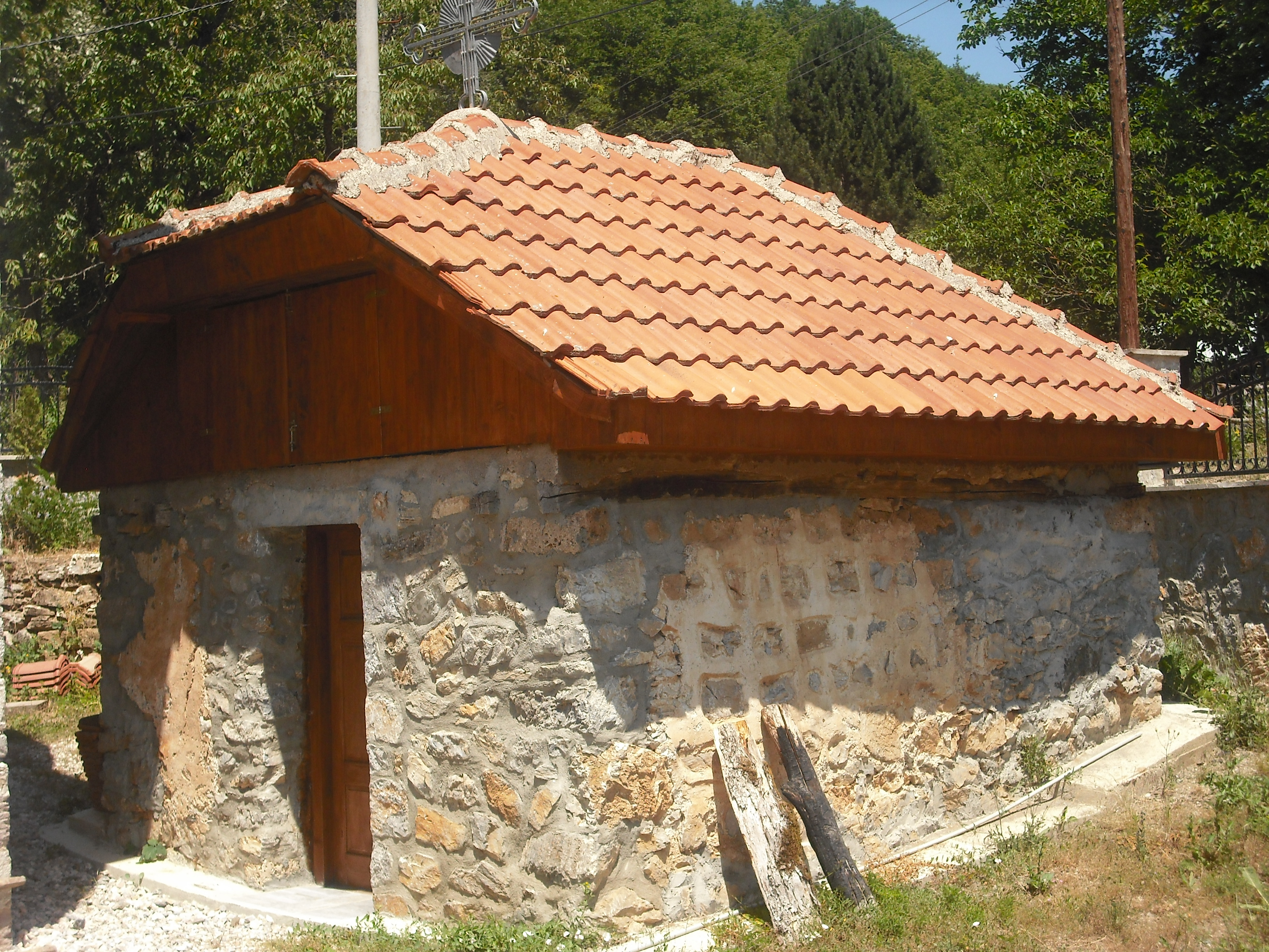 The building of the older church in the village of Mramorec, Republic of Macedonia